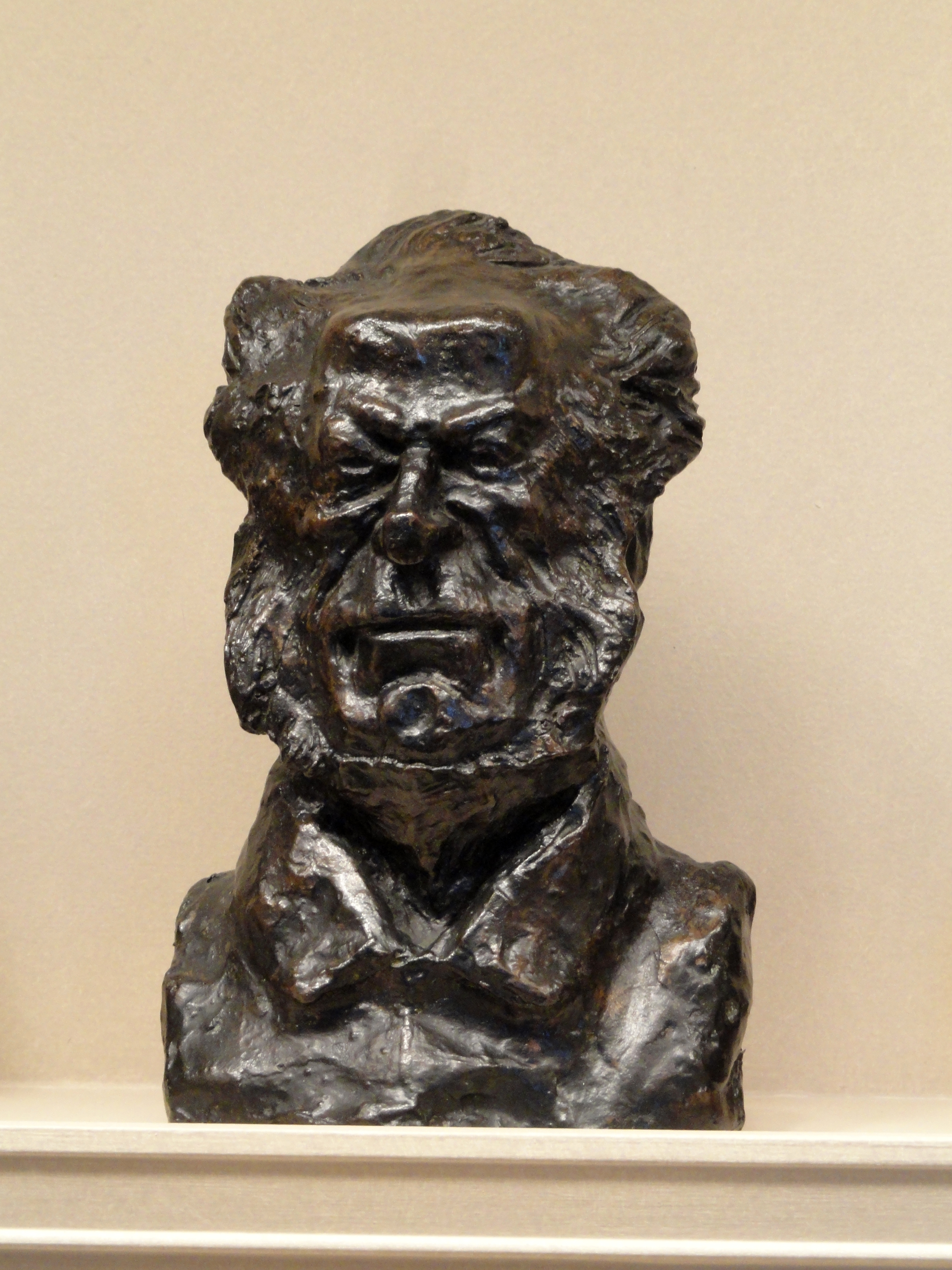 Jacques-Antoine-Adrien Delort by Honoré Daumier - National Gallery of Art, Washington, DC, USA. This artwork is in the public domain because the sculptor died more than 70 years ago.